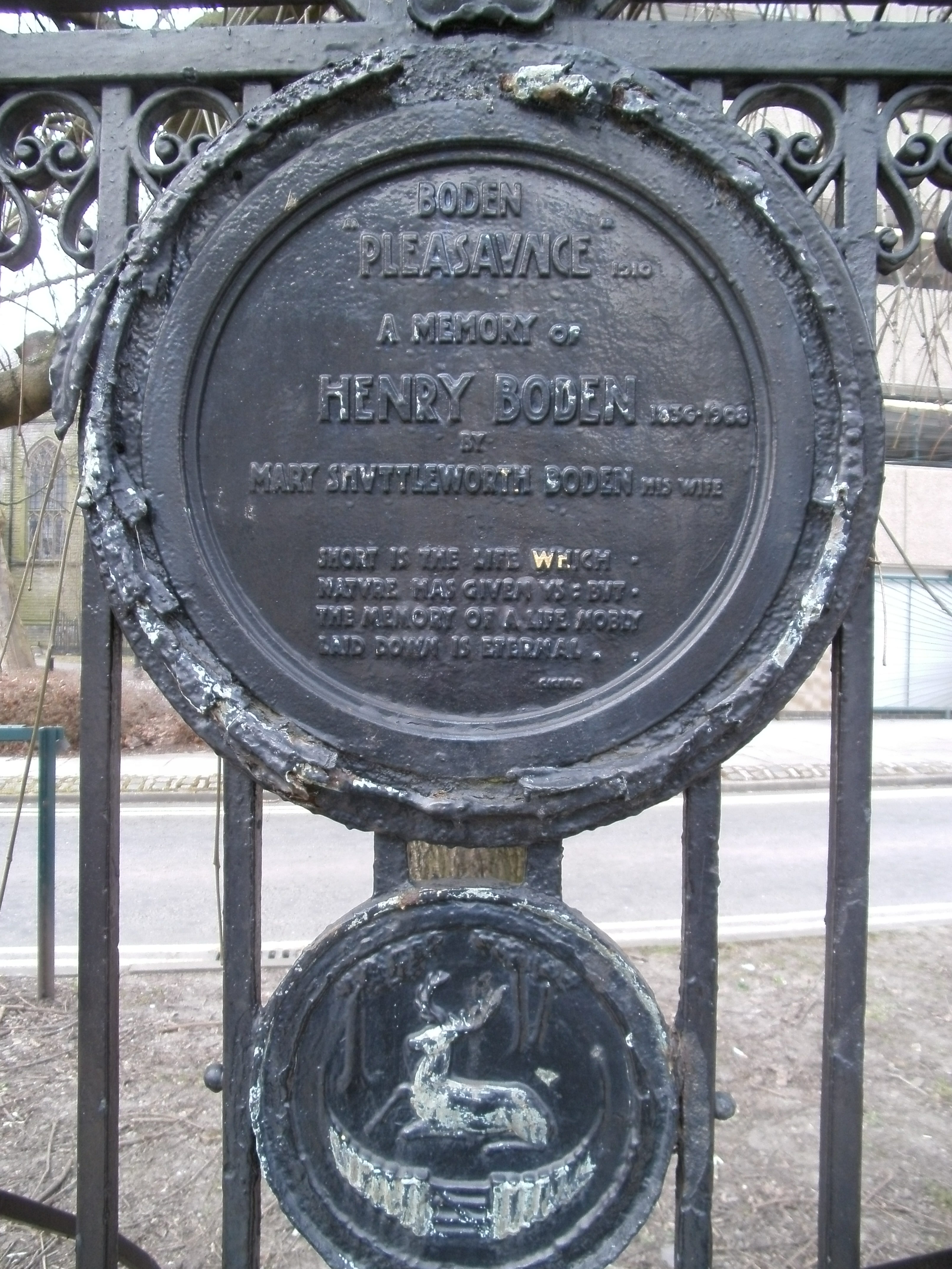 An Ironwork Memorial and Plaque dedicated to Henry Boden (1836-1908) on Bold Lane with the Multi Storey Car Park behind. Boden was a lace magnet and a member of the Temperance Union and where the car park is was originally a small green called Boden's Pleasaunce which opened in 1910. The Gate and Plaque were donated by Bodens widow Mary Shuttleworth Boden. Photo Taken 10/04/13